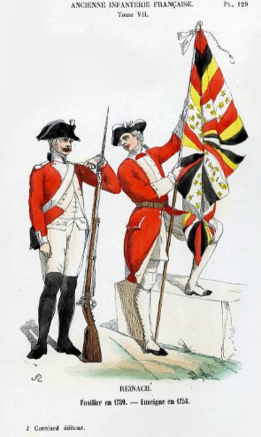 Fusilier of the Rheinach regiment in 1789 (just before the revolution) and ensign in 1758 (just after formation).